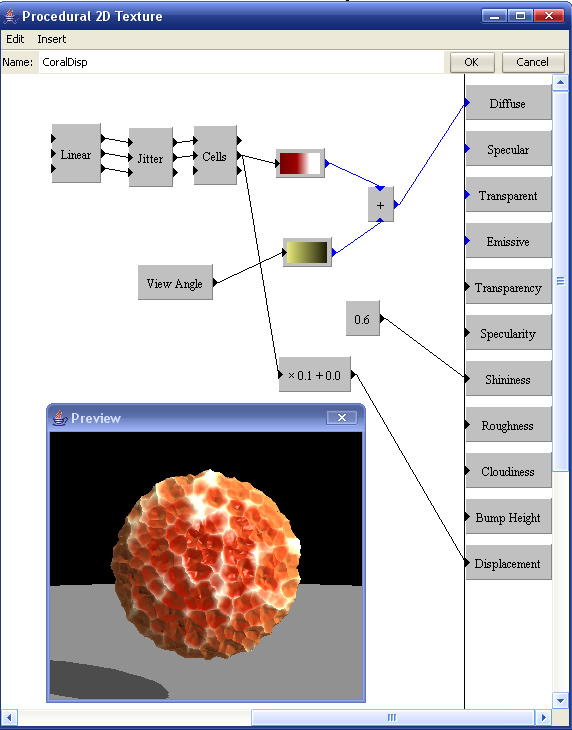 Screenshot of Art of Illusion's procedural texture editor by Marc Carson.